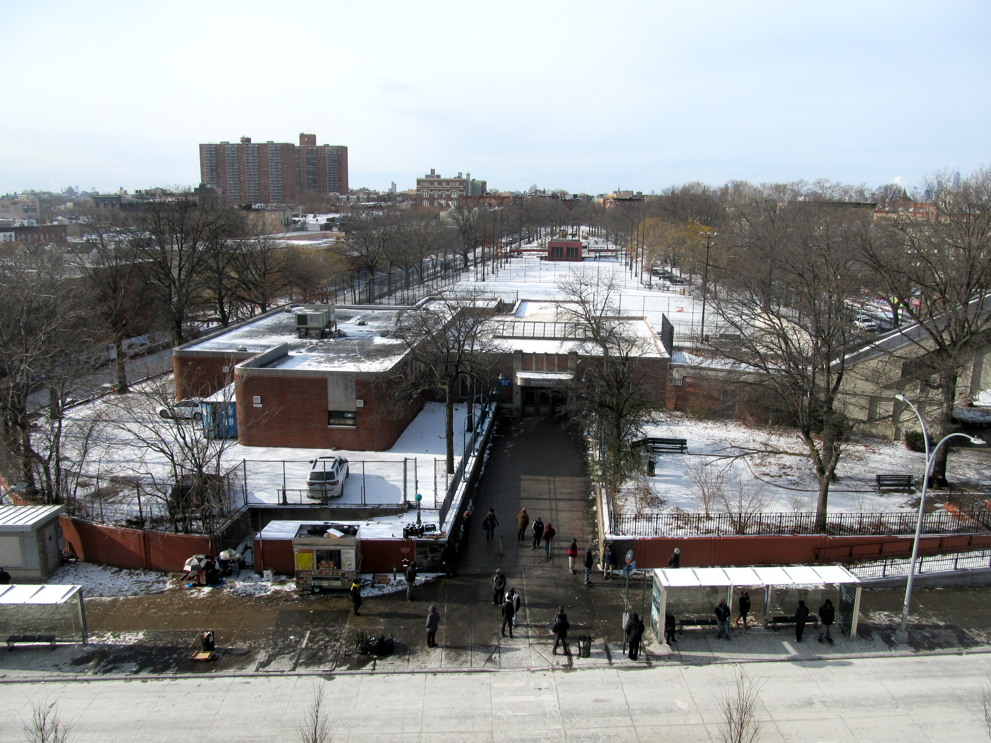 Headhouse of Broadway Junction station in December 2017